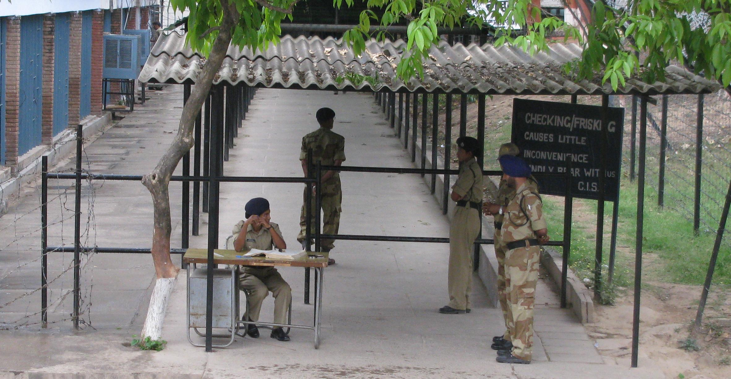 Central Industrial Security Force check point at Chandigarh Secretary